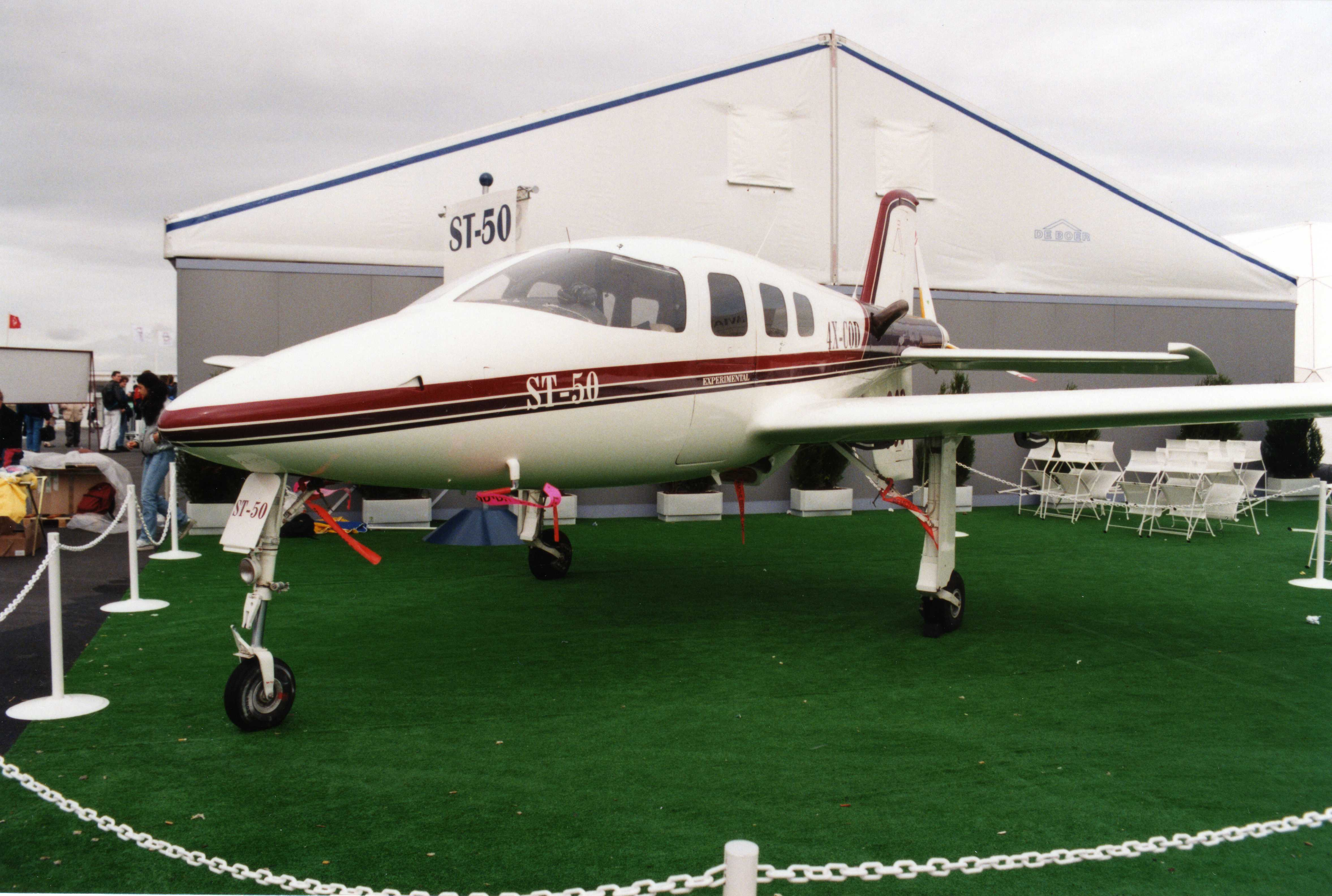 4X-COD, Israviation ST-50, at the Le Bourget Air Show.